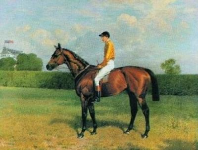 Ormonde ridden by Fred Archer.